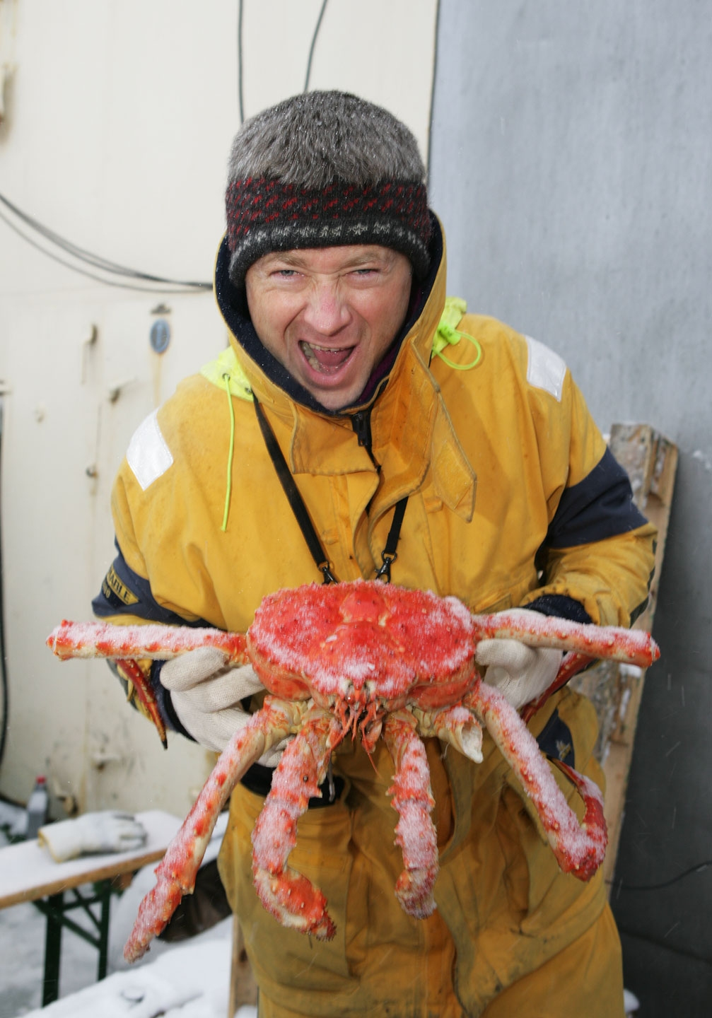 A king crab (Paralithodes camtschaticus) obtained from the deep. Wonder if it will become a scientific specimen or dinner? Arctic Ocean, north of western Russia.